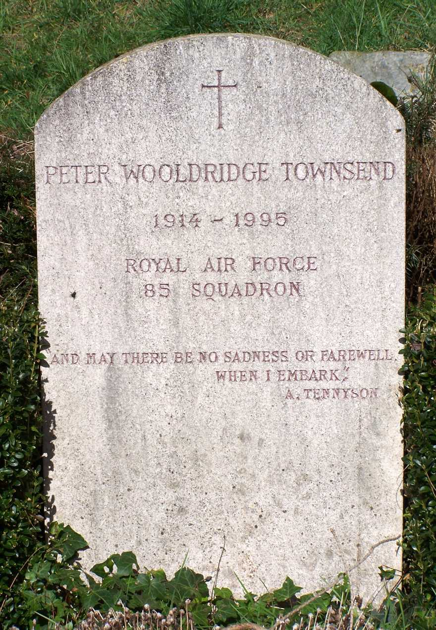 Peter Townsend's grave in Saint-Léger-en-Yvelines (Yvelines, France)